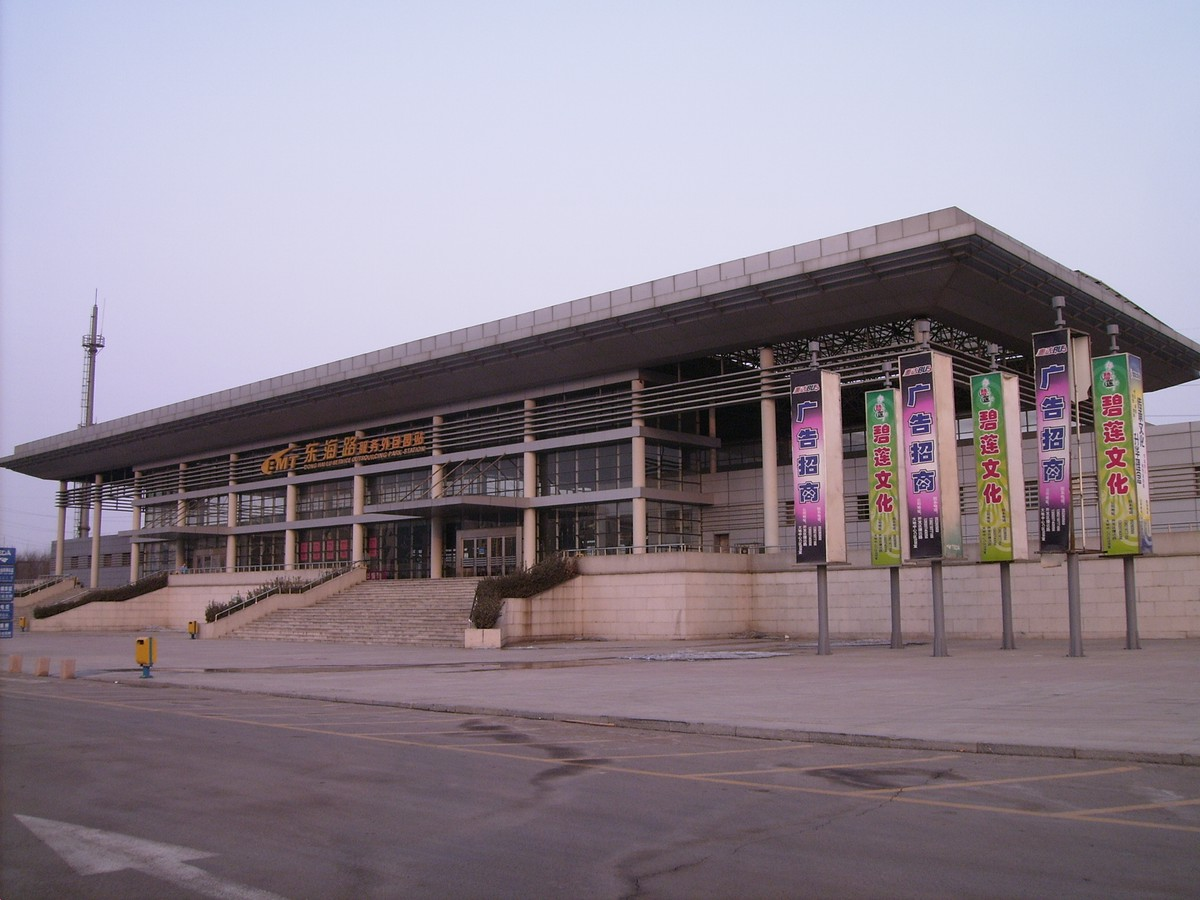 Donghai Lu Station, the terminus of Tianjin Metro Line 9, aka Binhai Mass Transit (Tianjin-Binhaixinqu Light Rail)